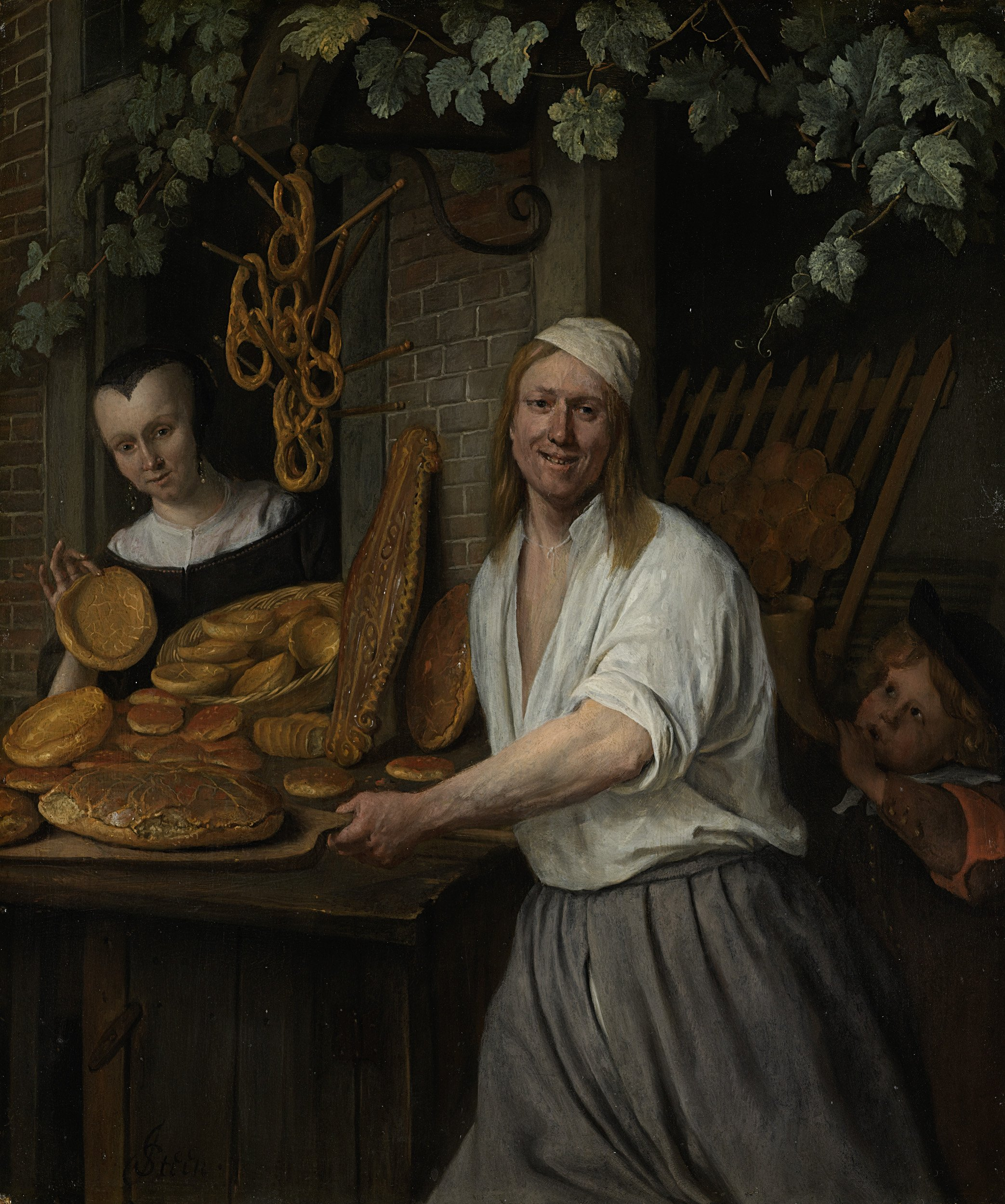 Portrait of the Leiden baker Arent Oostwaard and his wife Catherina Keizerswaard with various kinds of fresh baked bread (buns, pretzels, rolls, hot-cross buns) for the bakery. In the door of the bakery a little boy blows a horn (probably their son Thaddeus). Above the door are grape vines.